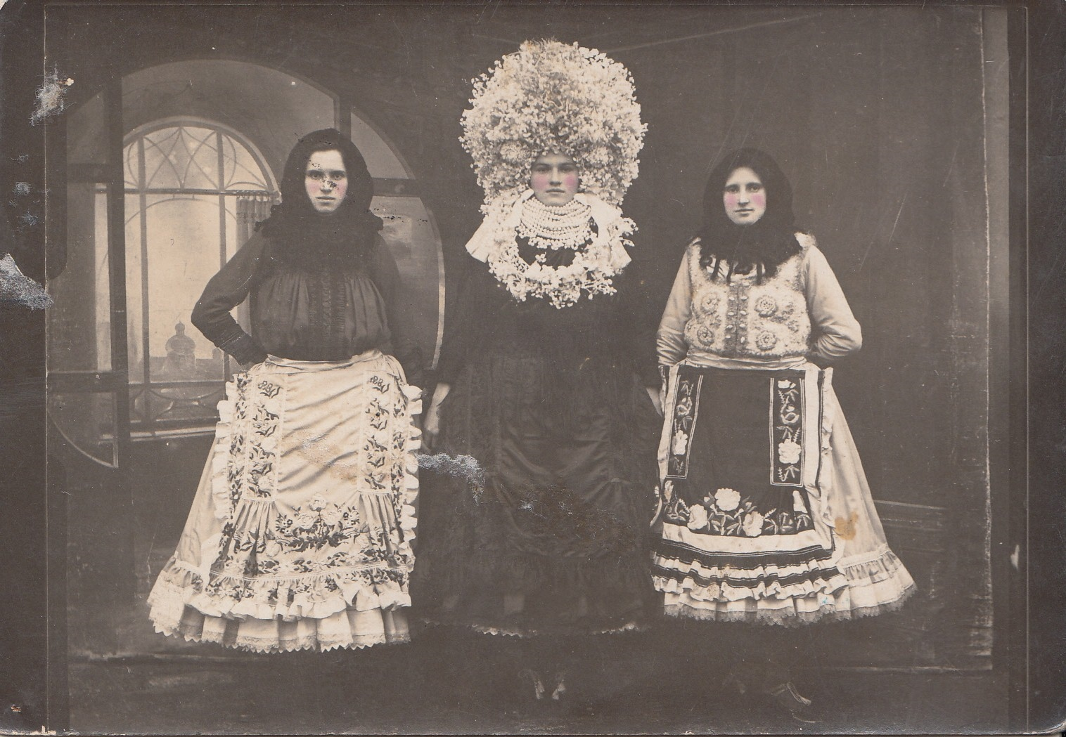 Zuzana Uram (née Dýr), photographed at wedding, Gložan (1935). Inventory number 1252. Srpski (latinica): Zuzana Uram (devojačko Dýr), fotografisana na venčanju, Gložan (1935). Inventarski broj 1252.